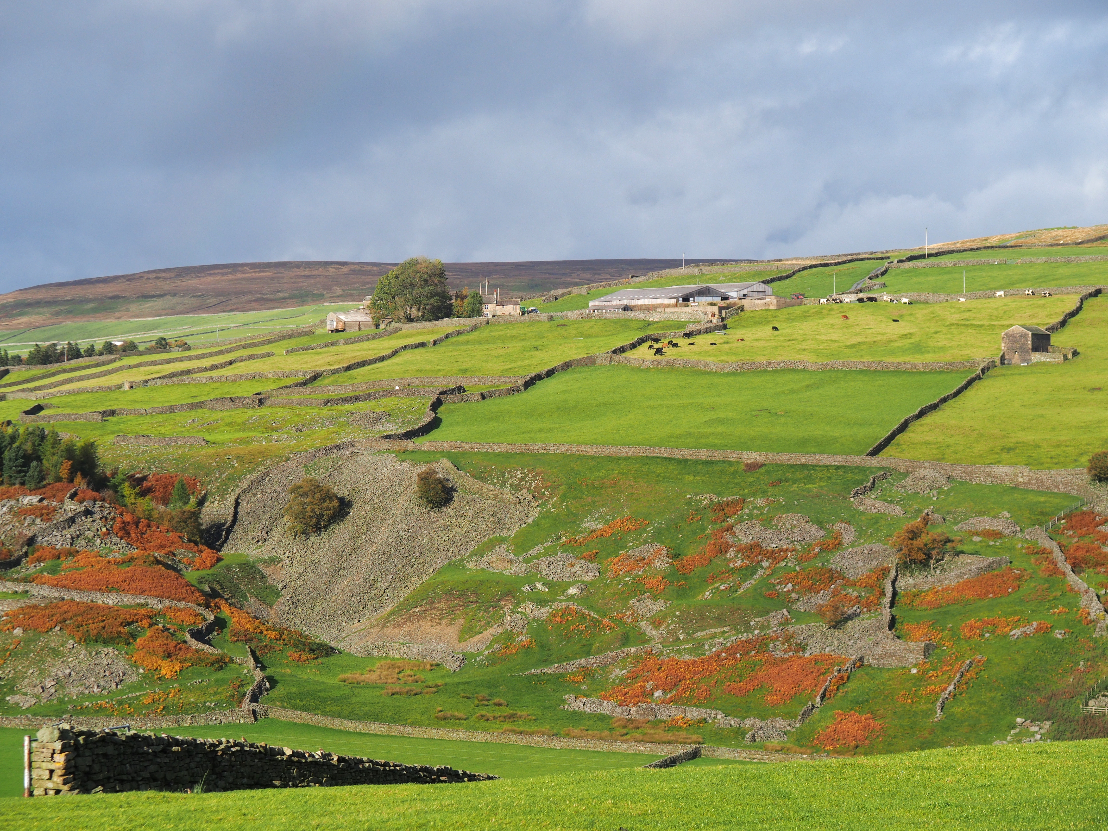 Characteristic appearance of the Yorkshire Dales: pastures below, moorland above. Taken near Whaw in Arkengarthdale.